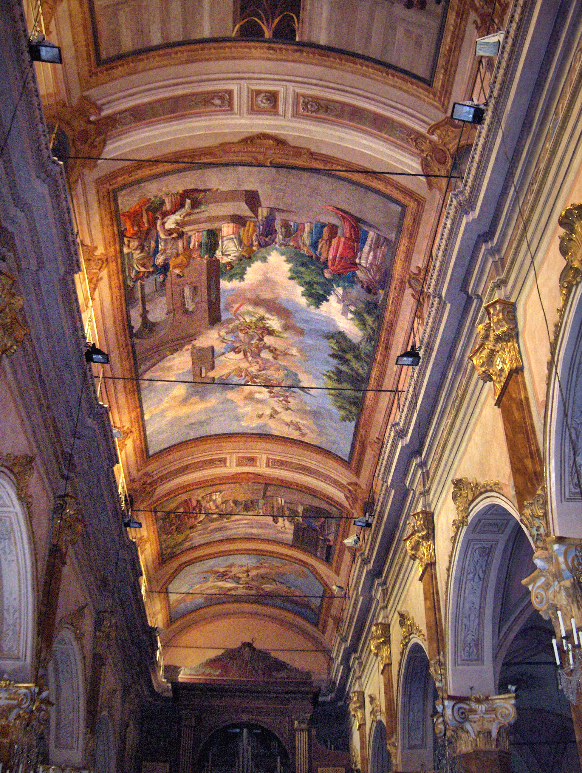 Central vault; frescoed with scenes from the life of Saint Ambrose by Virgilio Grana from Albenga; Church of S. Ambrogio; Alassio, Italy